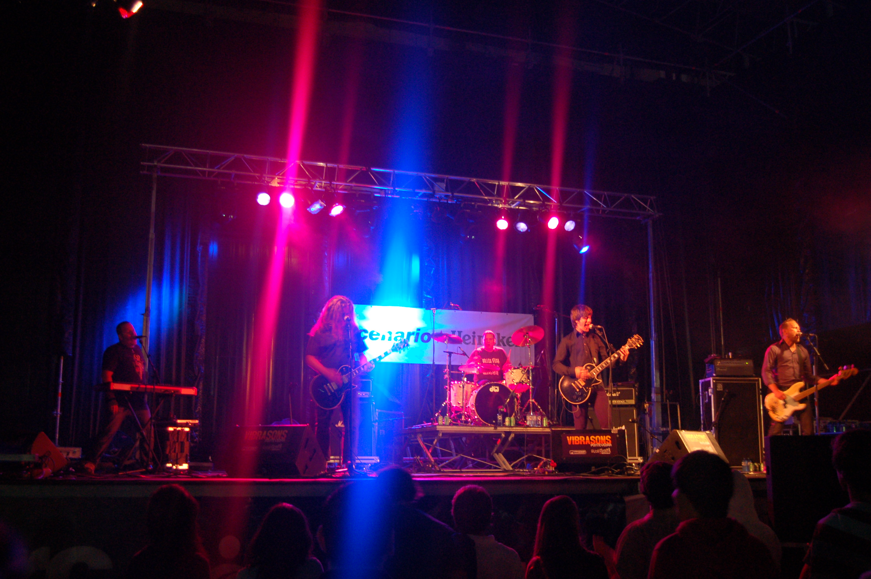 Sator in concert in Pontevedra